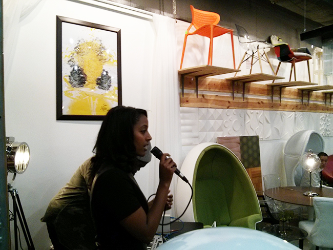 Budding actress and music performer Selam performing at Visual Collaborative 7 in Columbia Maryland United States